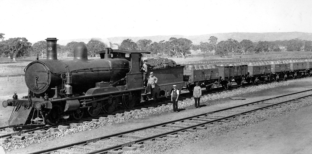 A South Australian Railways' goods train transporting a cargo of wine casks from the McLaren Vale area; locomotive Rx 149 is at a standstill with the train driver and four other railway personnel standing by.